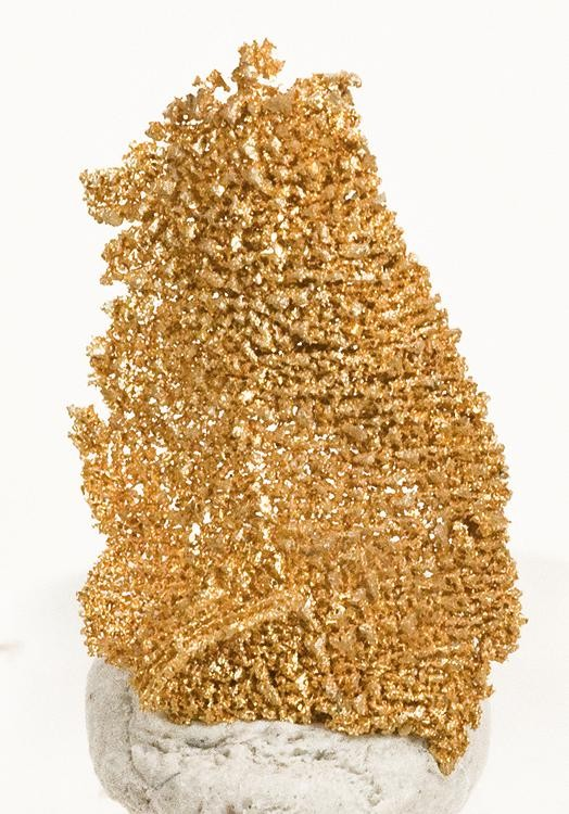 Gold Locality: Lizard Ridge Mine, Ten Mile District, Humboldt County, Nevada, USA (Locality at ) Size: 1.2 x 0.7 x 0.1 cm. A really beautiful leaf gold thumbnail comprised entirely of rich golden microcrystals from the Lizard Ridge Mine of Humboldt County, Nevada. A fascinating filigree of gold crystals. Older material. Ex. Richard Hauck Collection.